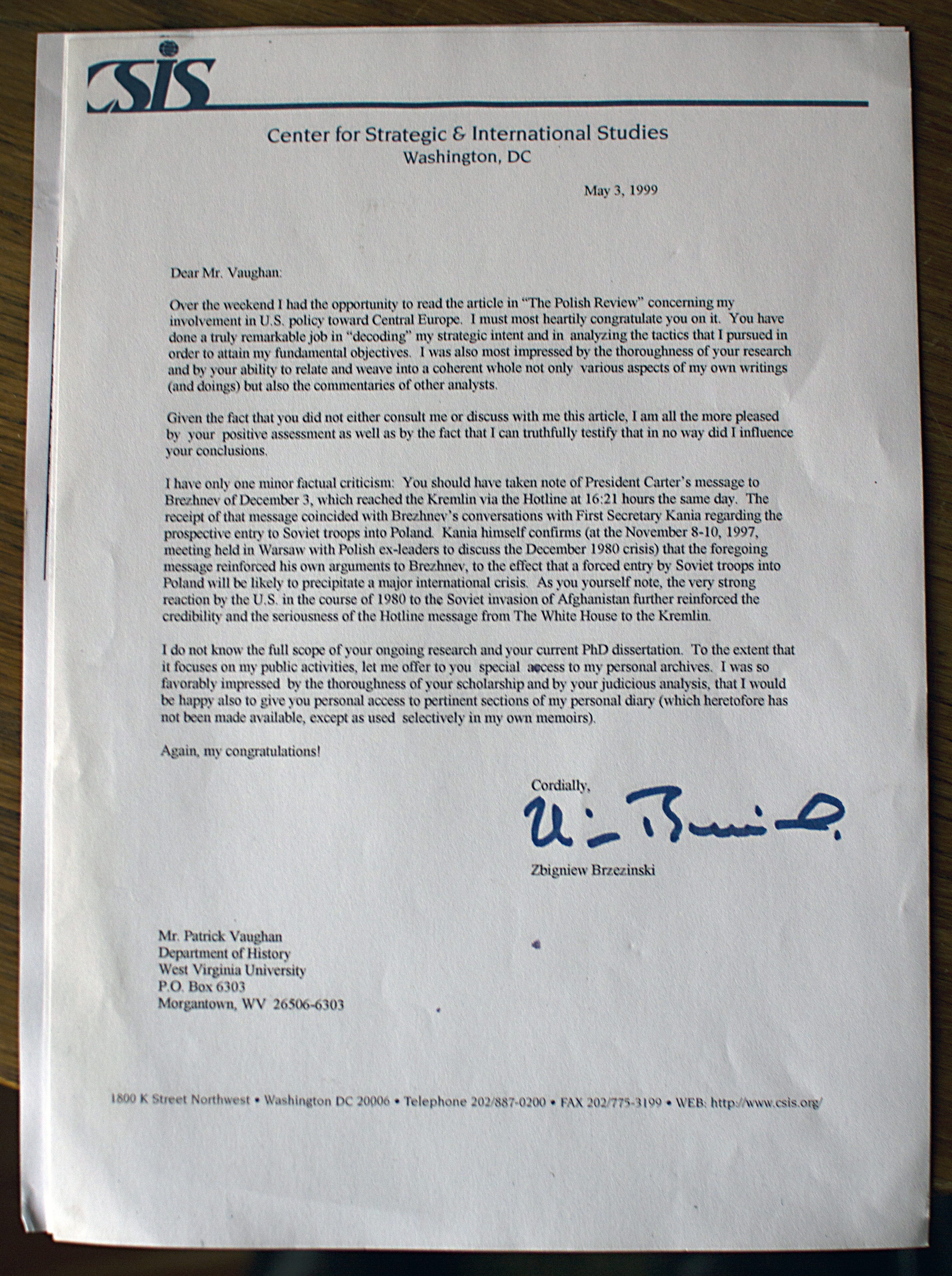 Brzezinski Letter to Patrick Vaughan